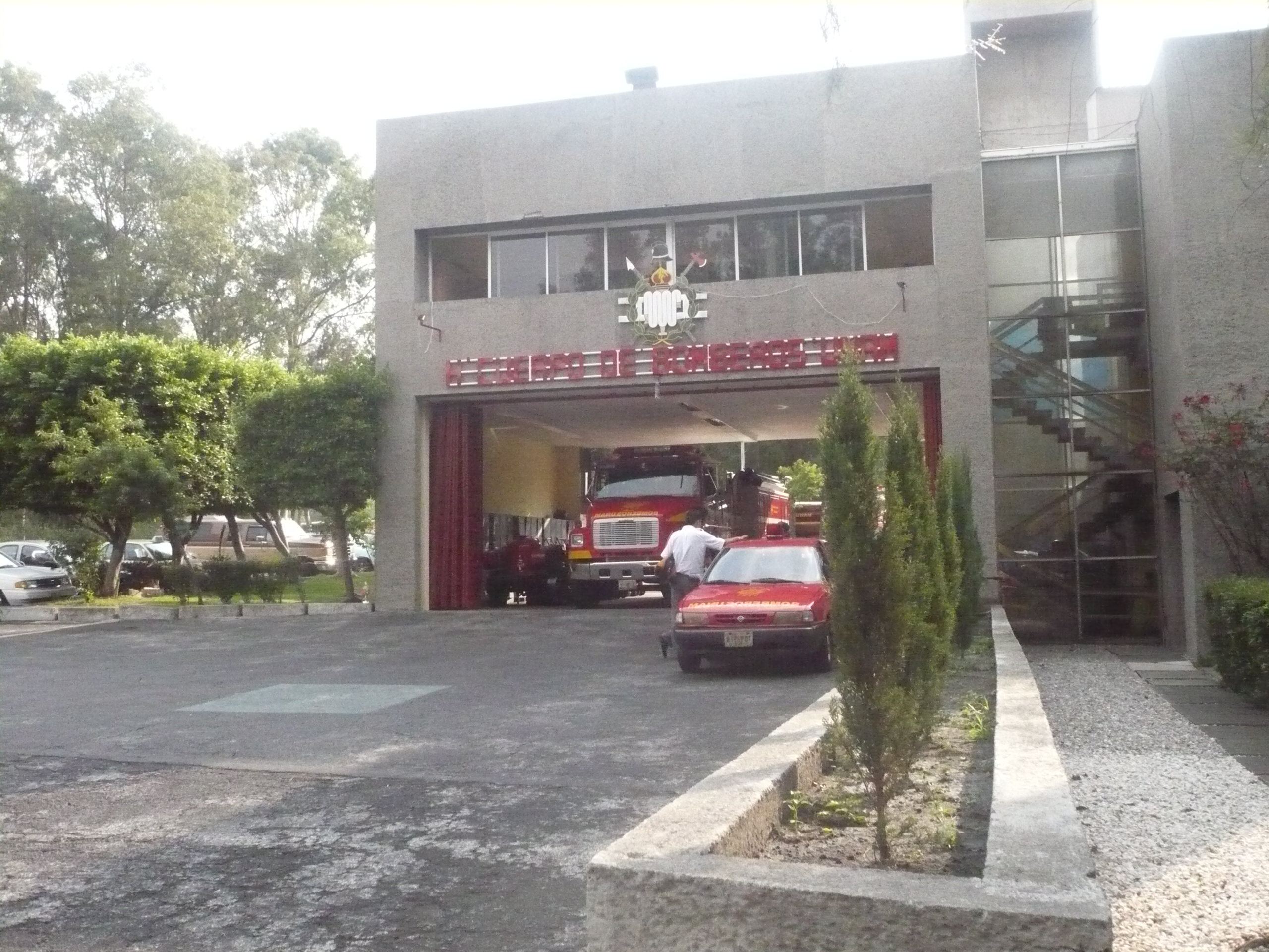 Image taken of the fire station of Ciudad Universitaria (UNAM), showing the main entrance